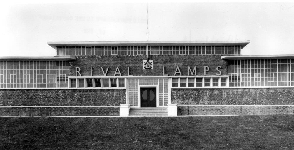 Rival Lamps Factory designed by Richard Seifert